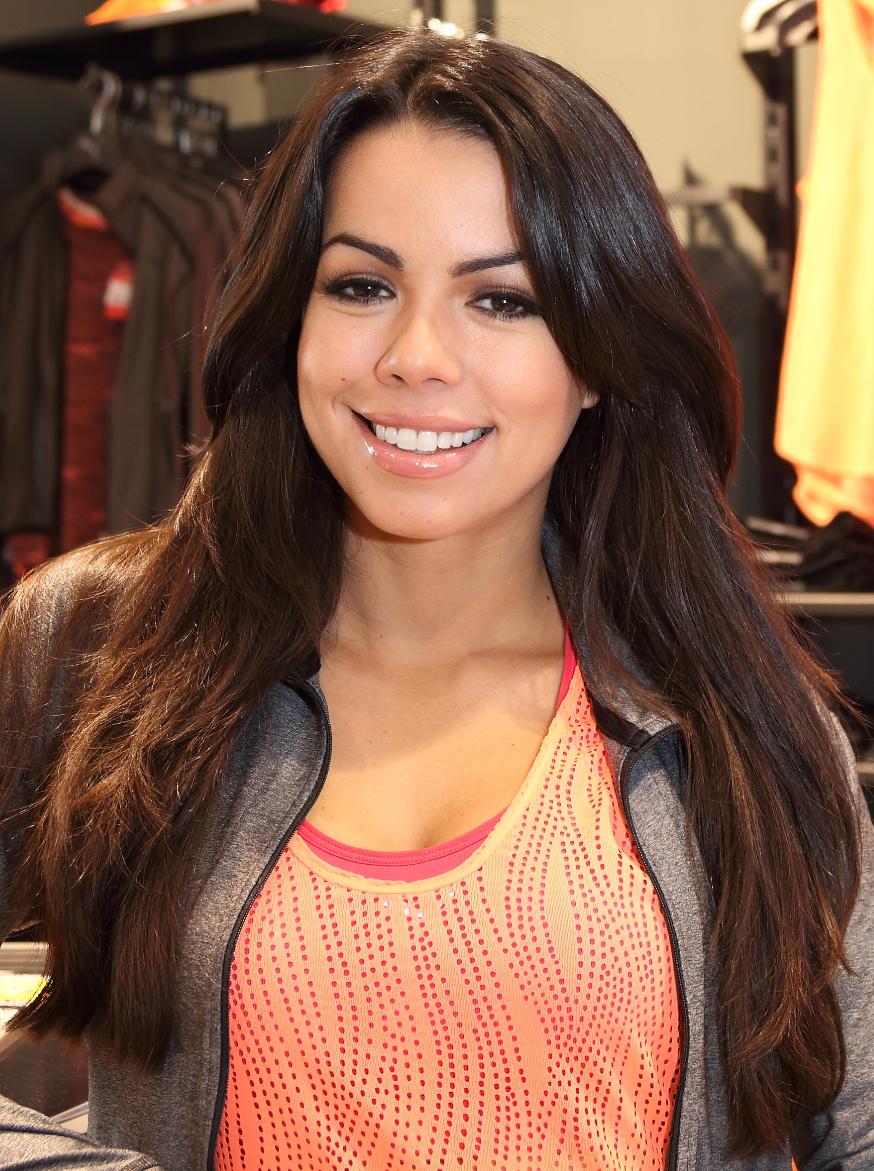 Singer, dancer, model and fitness coach Fernanda Brandão as Puma testimonial at Intersport C.A. Brüggen in Ibbenbüren, Kreis Steinfurt, North Rhine-Westphalia, Germany.